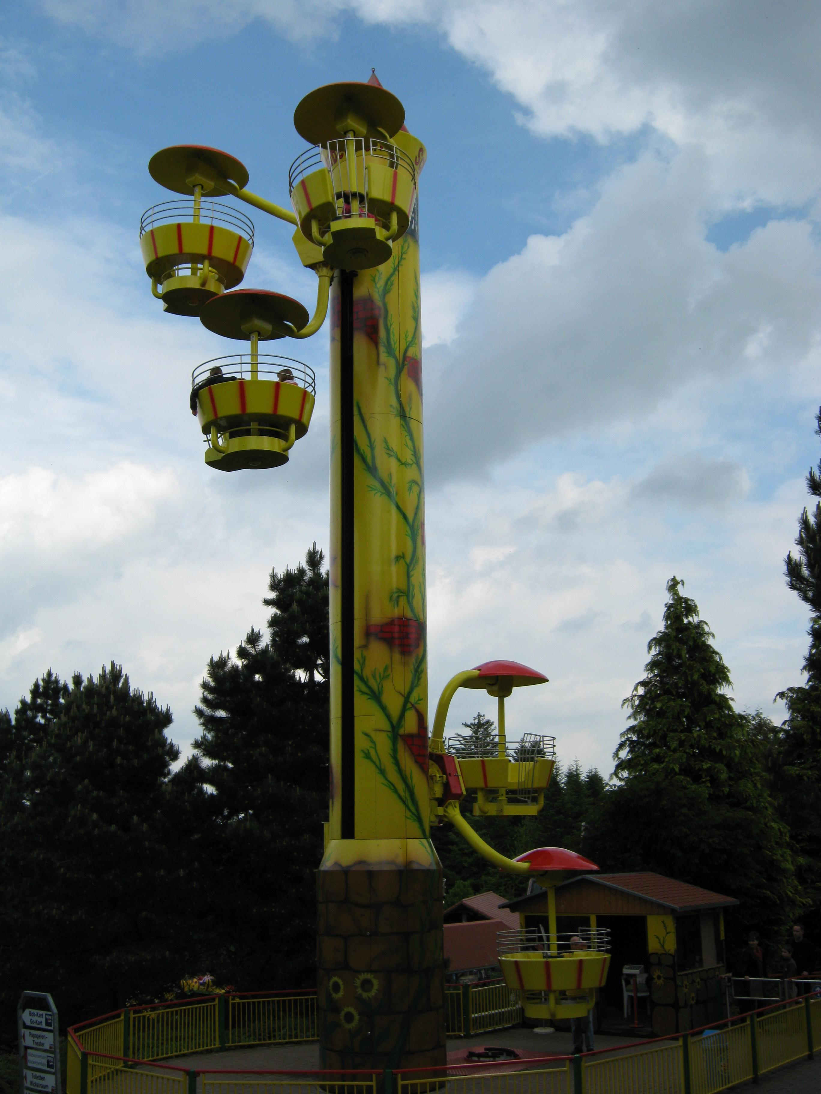 Flying wheel at Schwabenpark